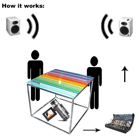 reactable